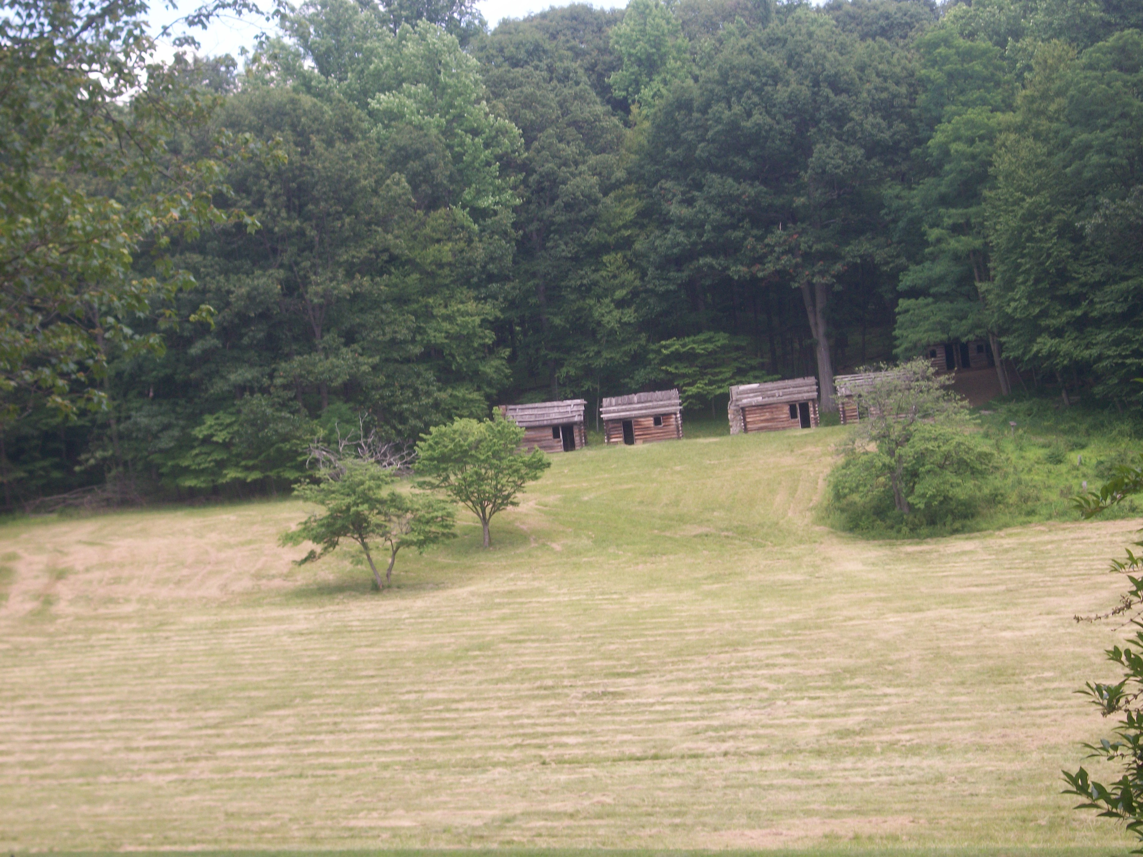 Taken June 19, 2010.